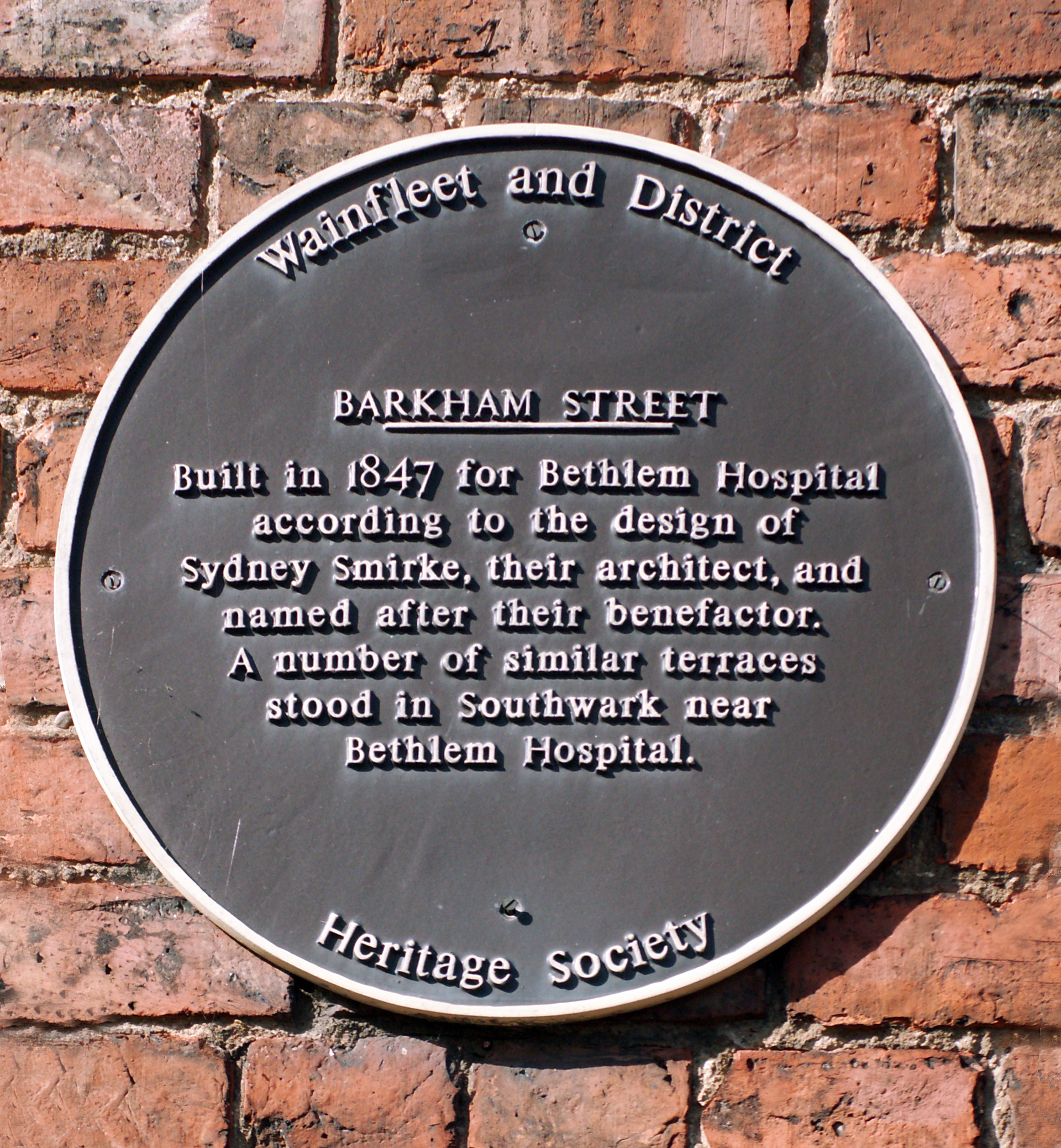 Plaque on a street of 'London town houses' reputedly built in error at Wainfleet Lincolnshire. Original image edited in Photoshop CS2.